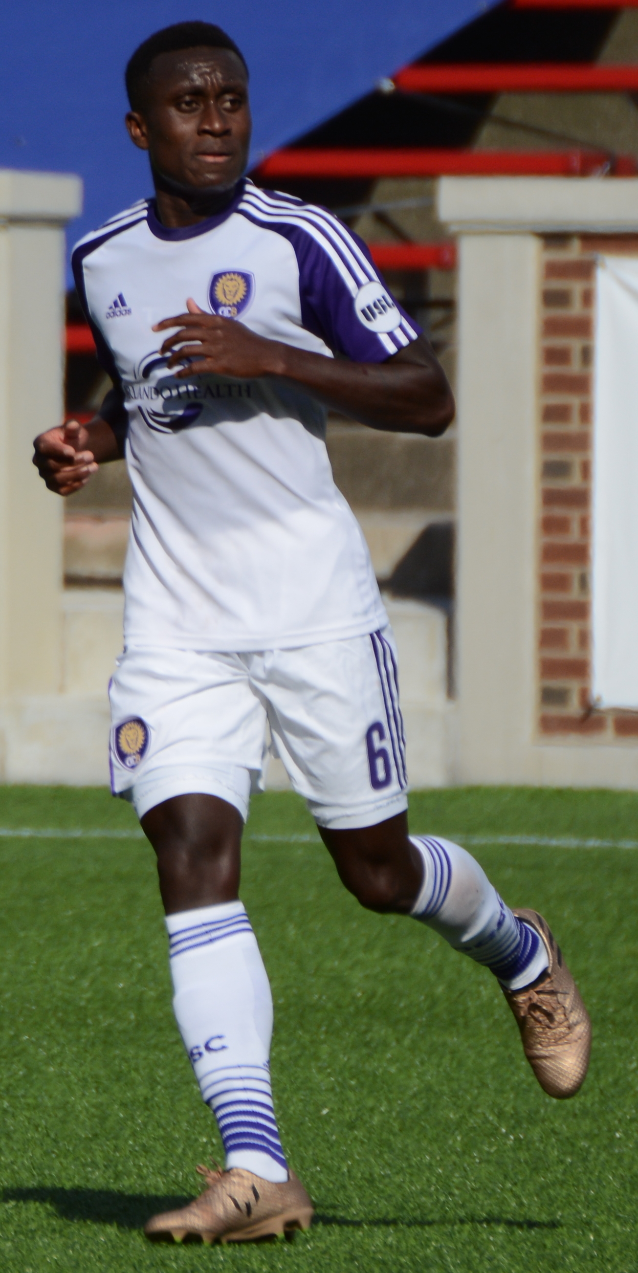 Richie Laryea Taken during a match between FC Cincinnati and Orlando City B at Nippert Stadium in Cincinnati, USA on May 13, 2017.